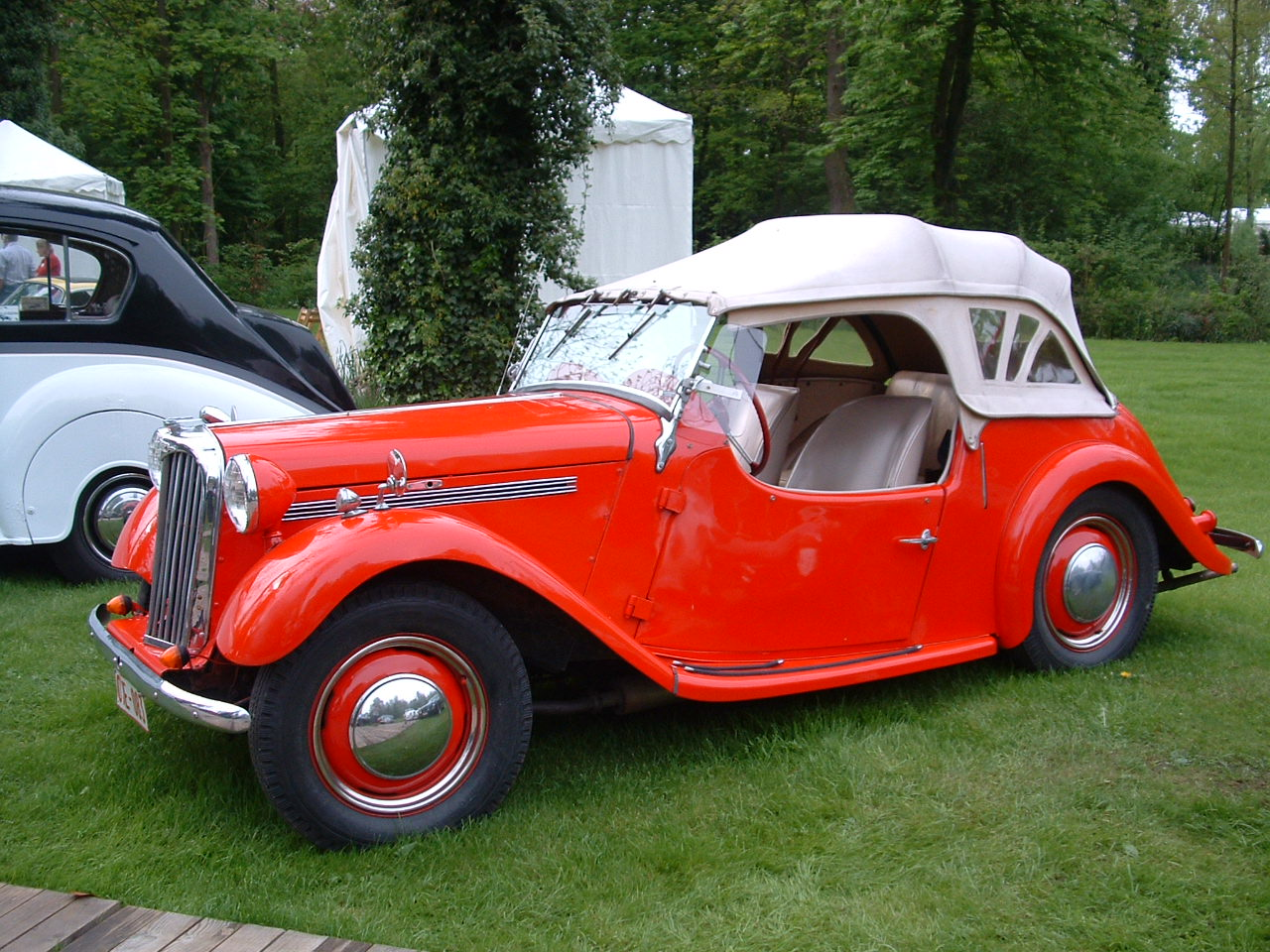 Singer SM Roadster (4AD) taken by Jean-Paul Broekaert, used with permission